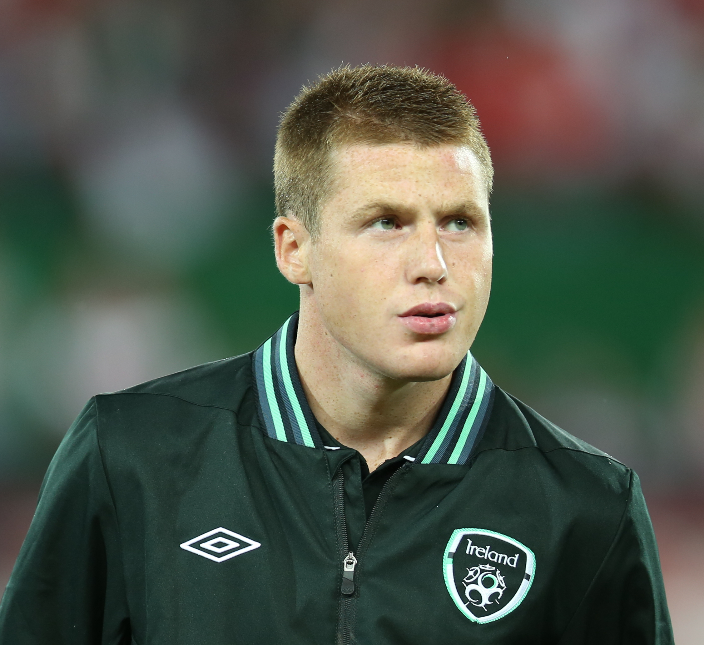 2014 FIFA World Cup qualification (UEFA), Group C: Republic of Ireland national football team at 10. September 2013 before the match against the Austria national football team (0:1) in the Ernst-Happel-Stadion in Vienna. Here: James McCarthy, irish midfielder The making of this work was supported by Wikimedia Austria. For other files made with the support of Wikimedia Austria, please see the category Supported by Wikimedia Österreich.